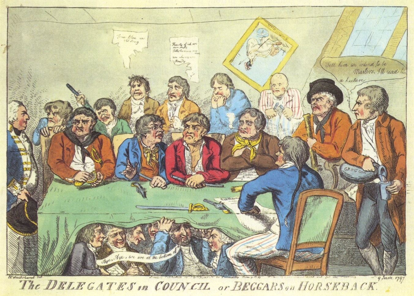 The Delegates in Council. A contemporary cartoon of the delegation of sailors who devised the terms of settlement of the Mutiny of Spithead, 1797.